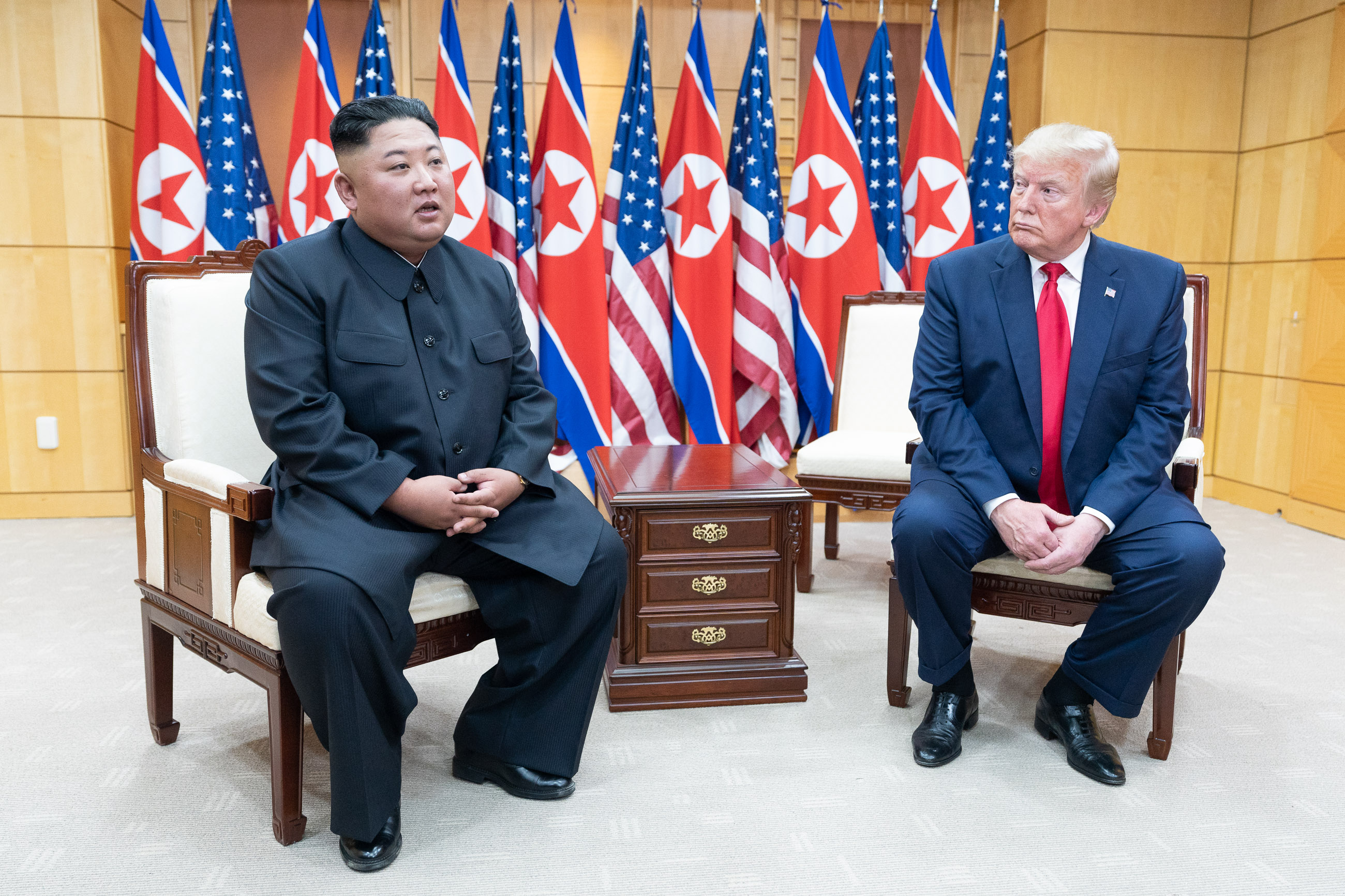 President Donald J. Trump and Chairman of the Workers’ Party of Korea Kim Jong Un speak to reporters Sunday, June 30, 2019, as the two leaders meet in Freedom House at the Korean Demilitarized Zone. (Official White House Photo by Shealah Craighead)